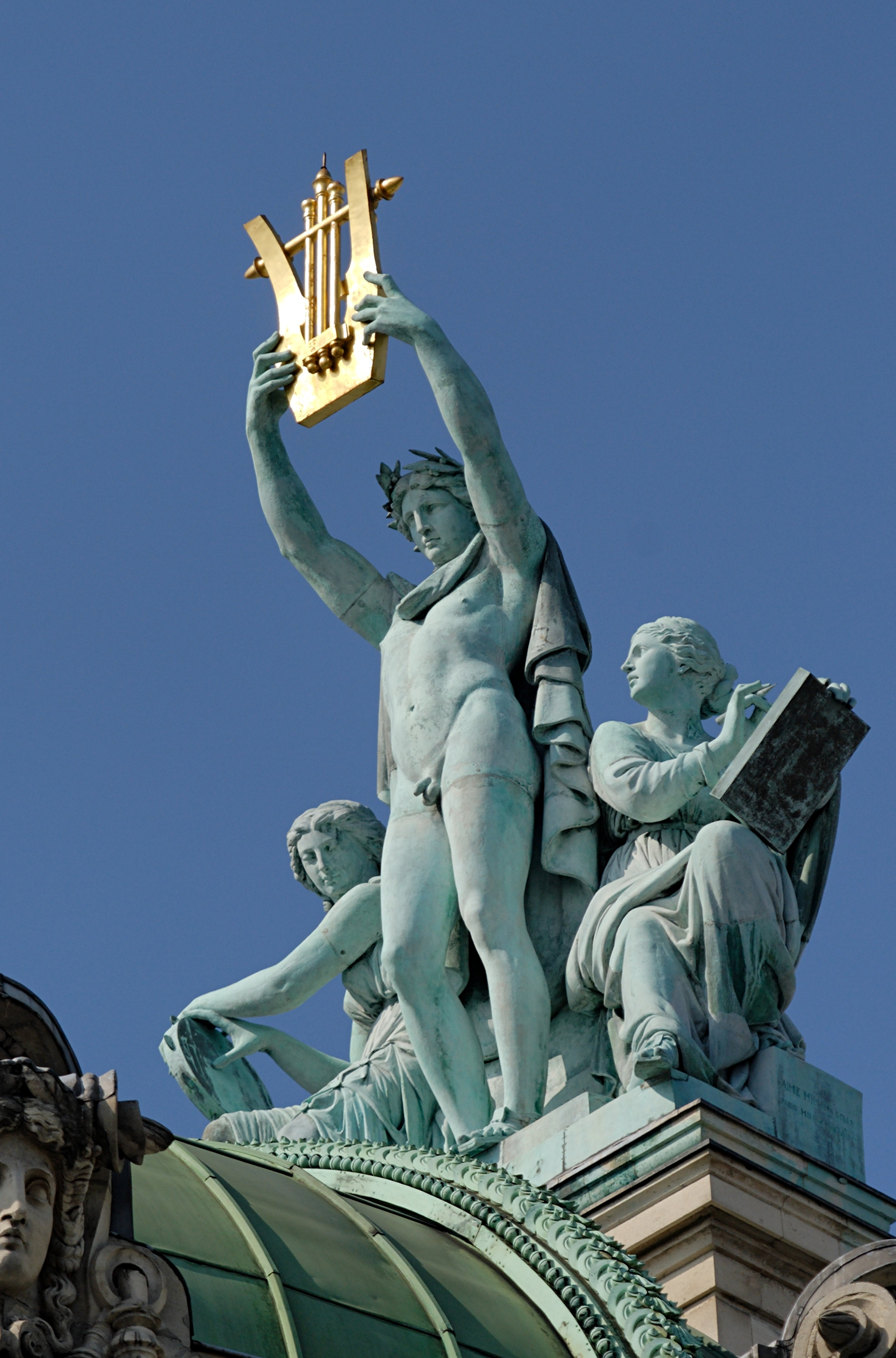 Apollo, Poetry and Music by Aimé Millet (ca. 1860–1869), viewed from the Eastern side (Rue Halévy). Roof of the Palais Garnier, Paris.